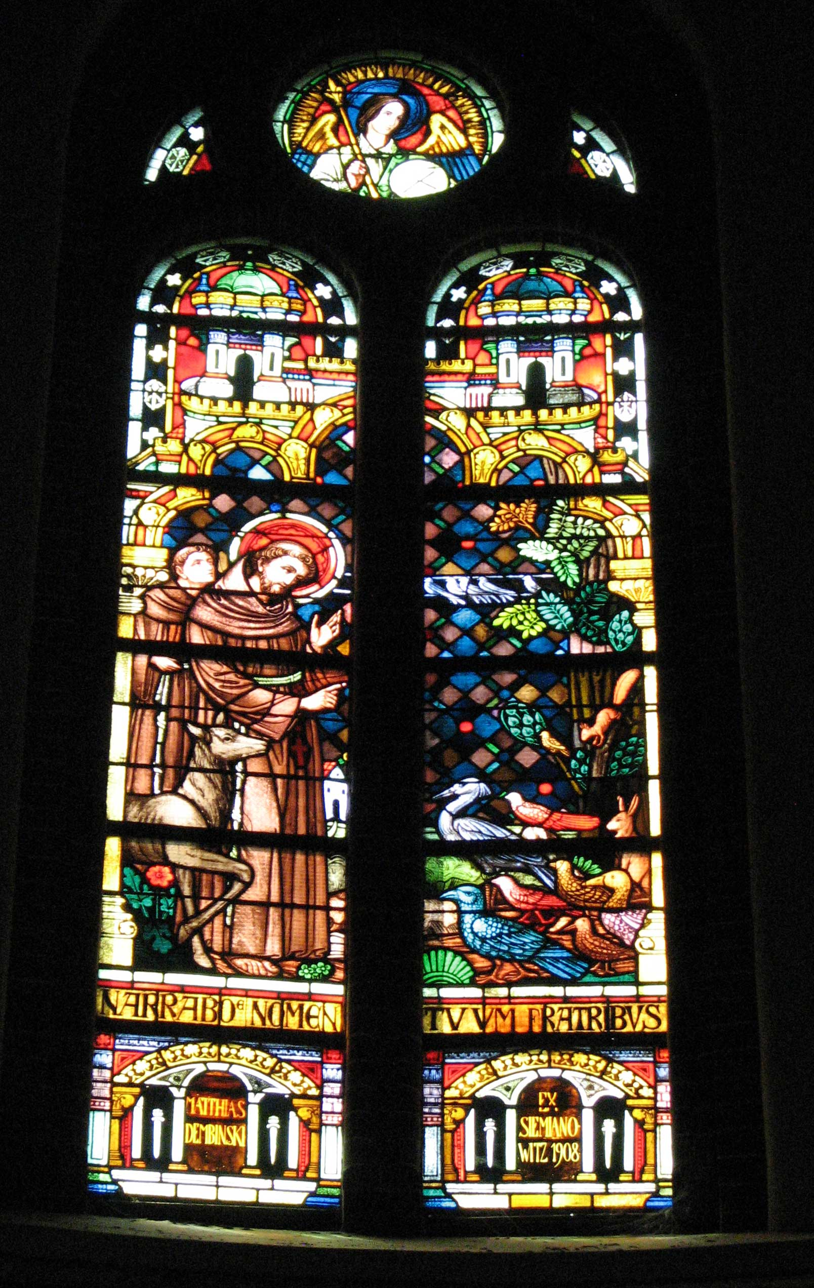 Stained glass window in the transept of the Basilica of St. Louis King in Katowice Poland, XX century - Saint Francis of Assisi